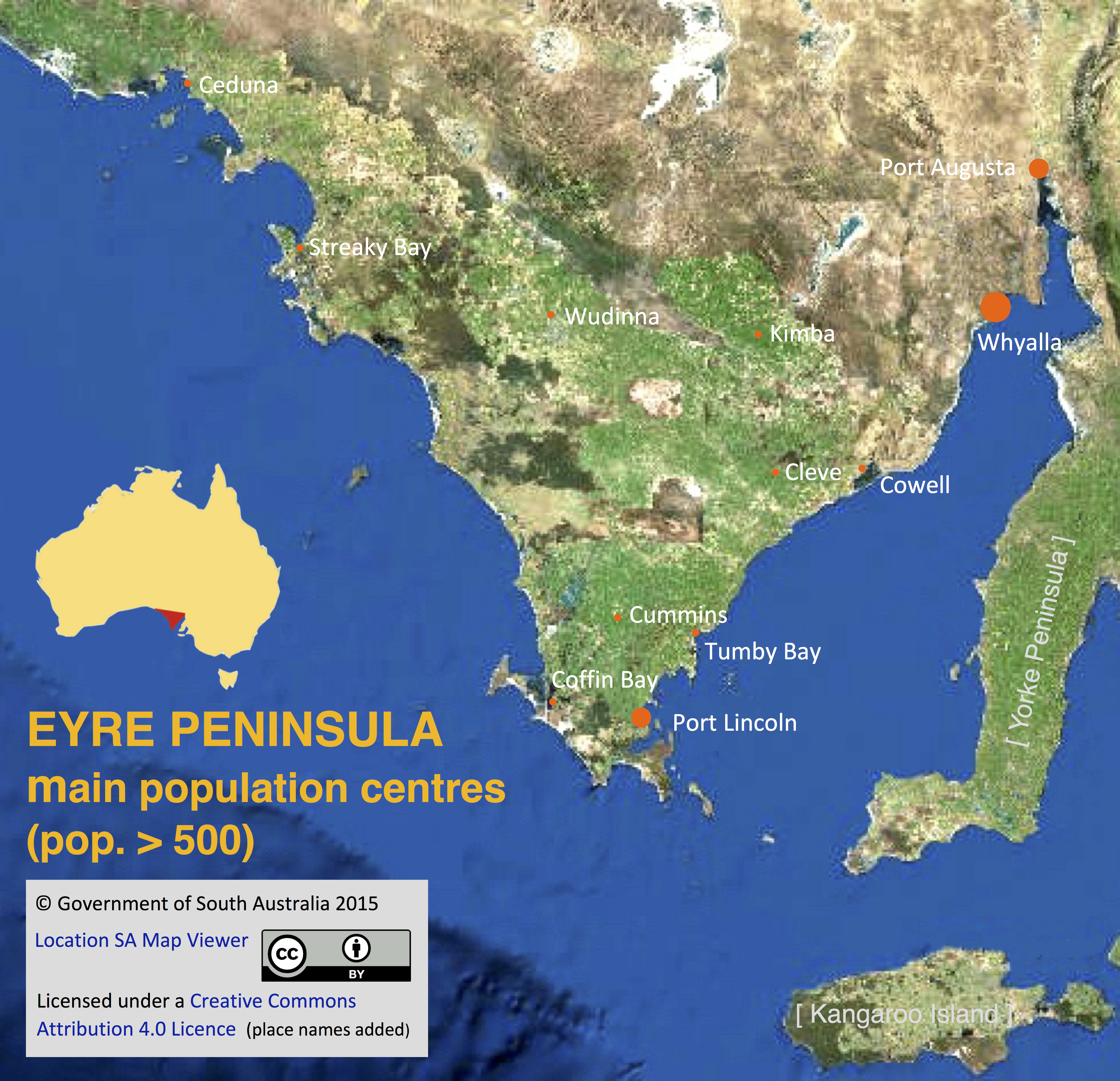 A satellite image of Eyre Peninsula, South Australia, imposed with names and locations of towns and cities with a population of more than 500 as recorded in the 2011 Australian census.